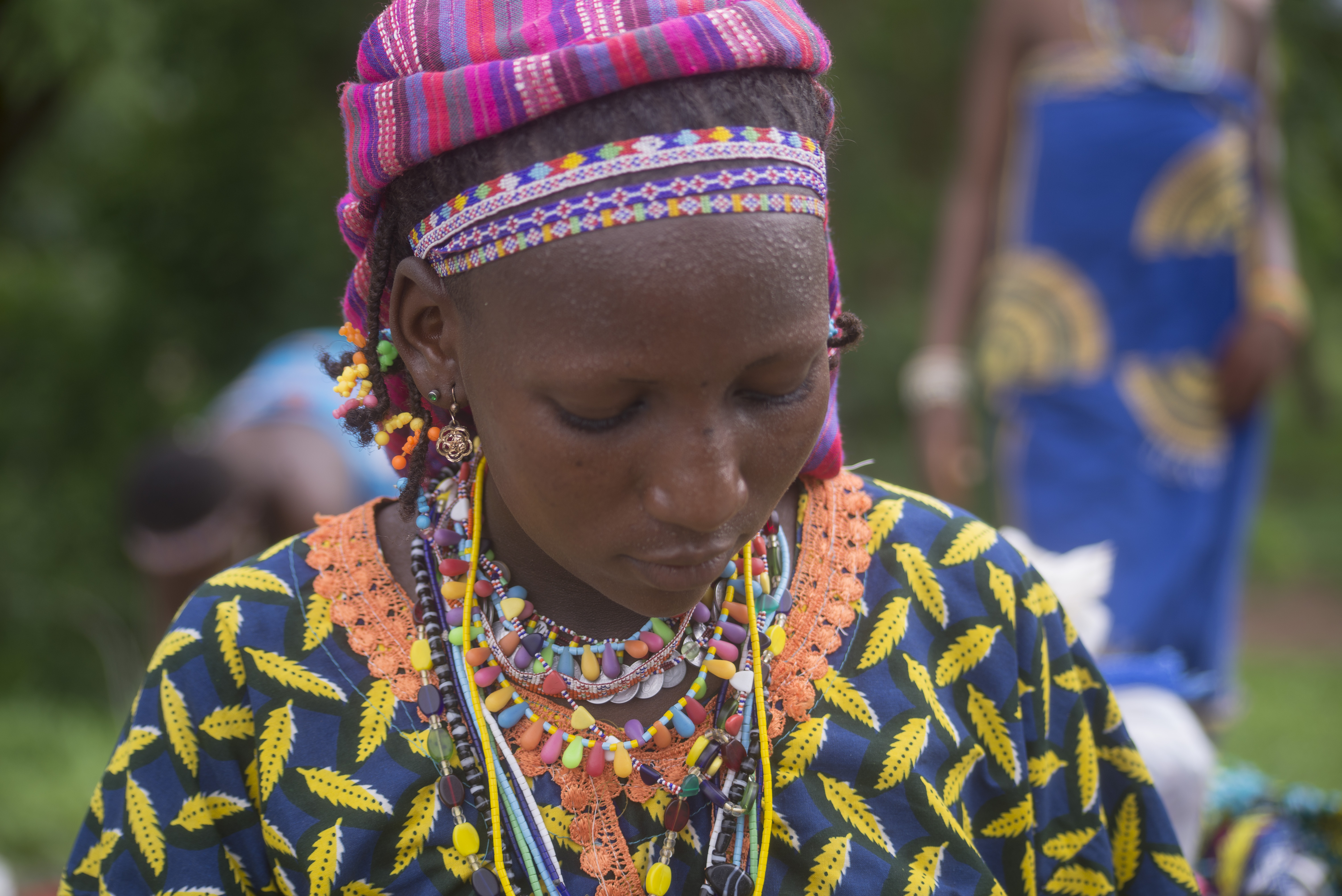 A funalin woman decorated with colourful beads This photo has been taken in the country: Ghana